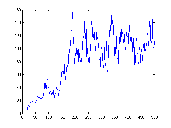 Evolução temporal do número de indivíduos